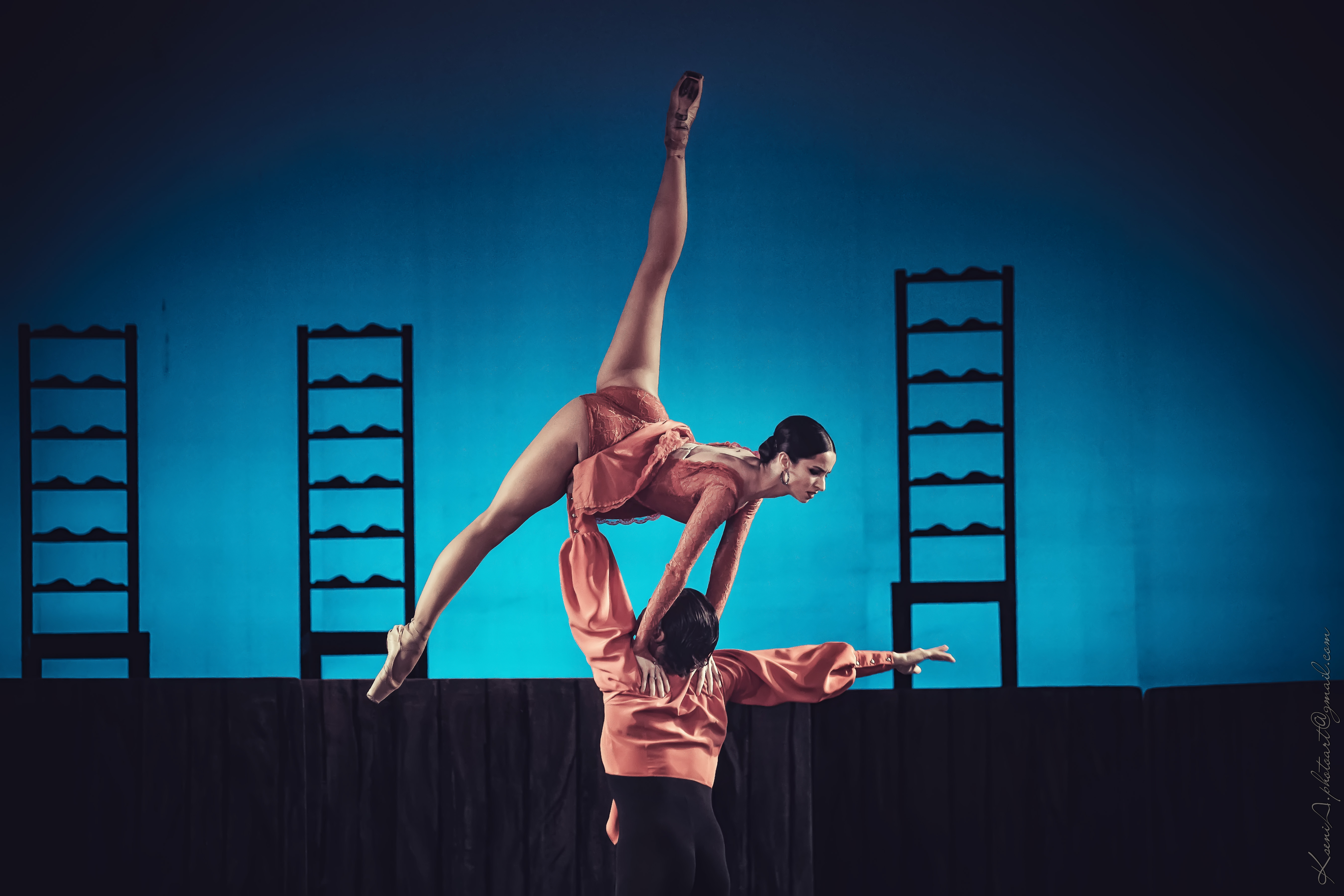 National Opera House of Ukraine_Carmen